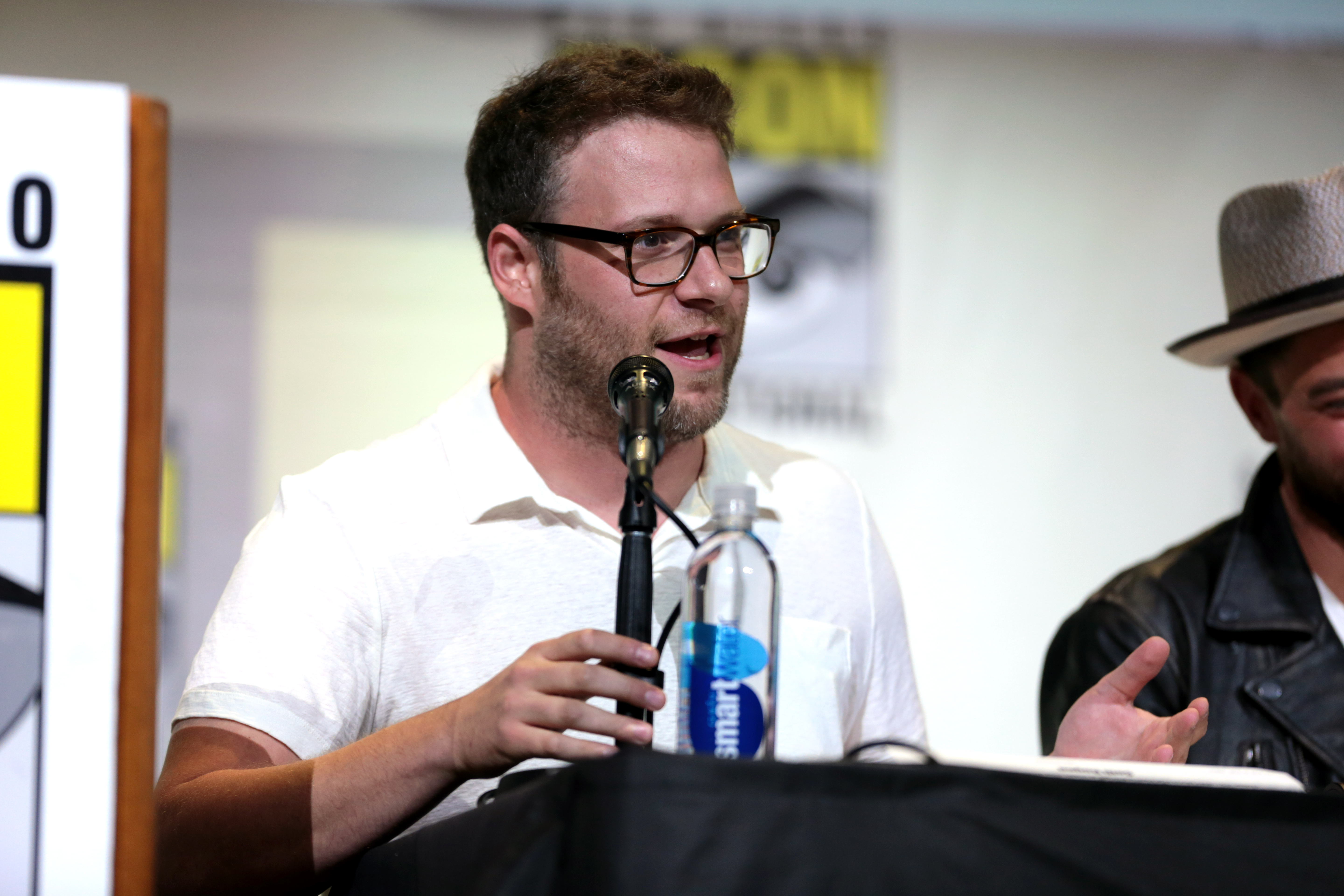 Seth Rogen speaking at the 2016 San Diego Comic Con International, for "Preacher", at the San Diego Convention Center in San Diego, California.